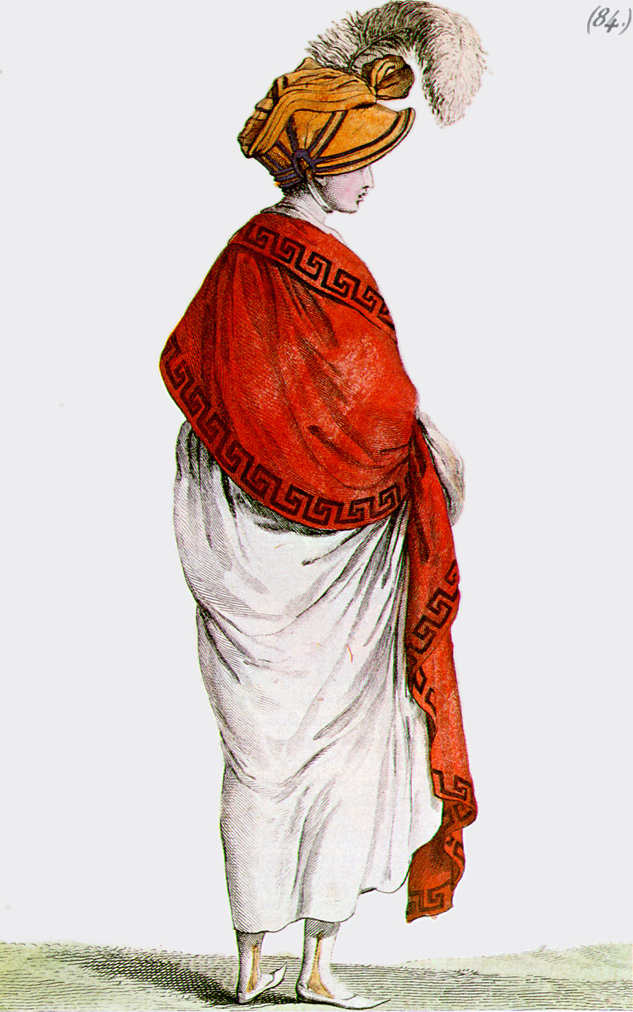 Red shawl with Greek key border, contrasting with white Directoire gown, from Costume Parisien, 1799.